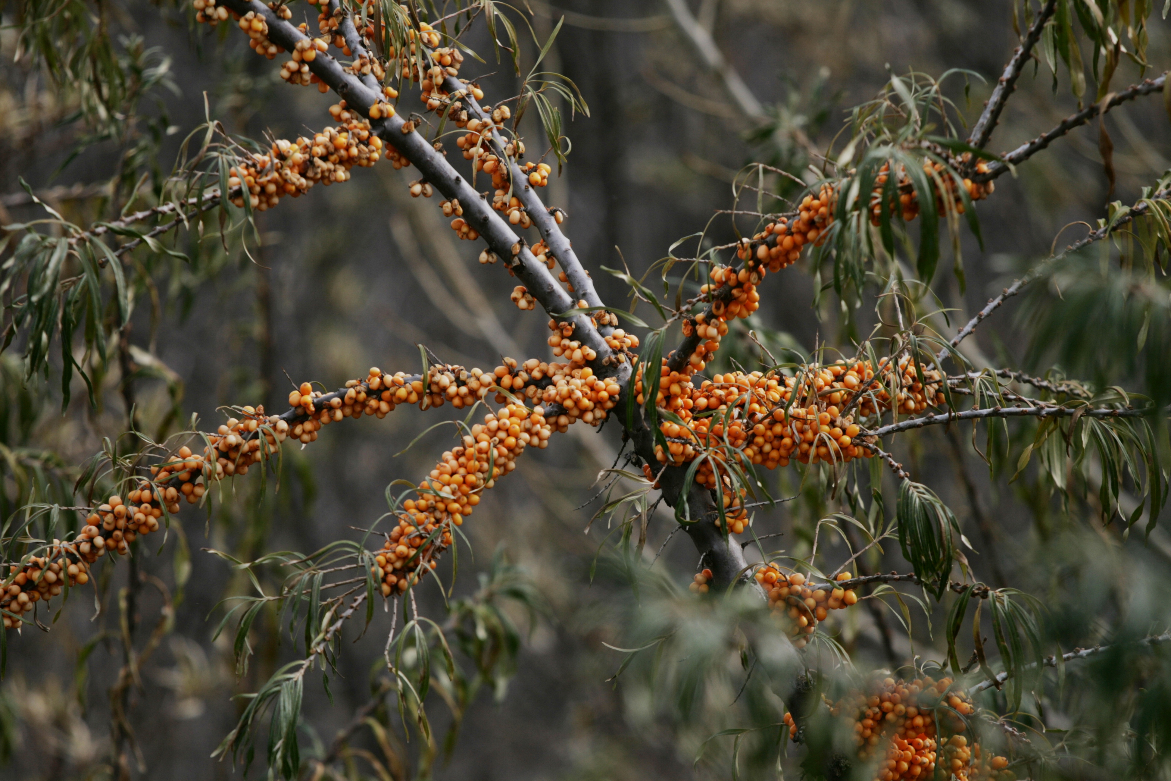 Hippophae rhamnoides (Sea Buckthorn), Sevan Botanical Garden, Armenia.